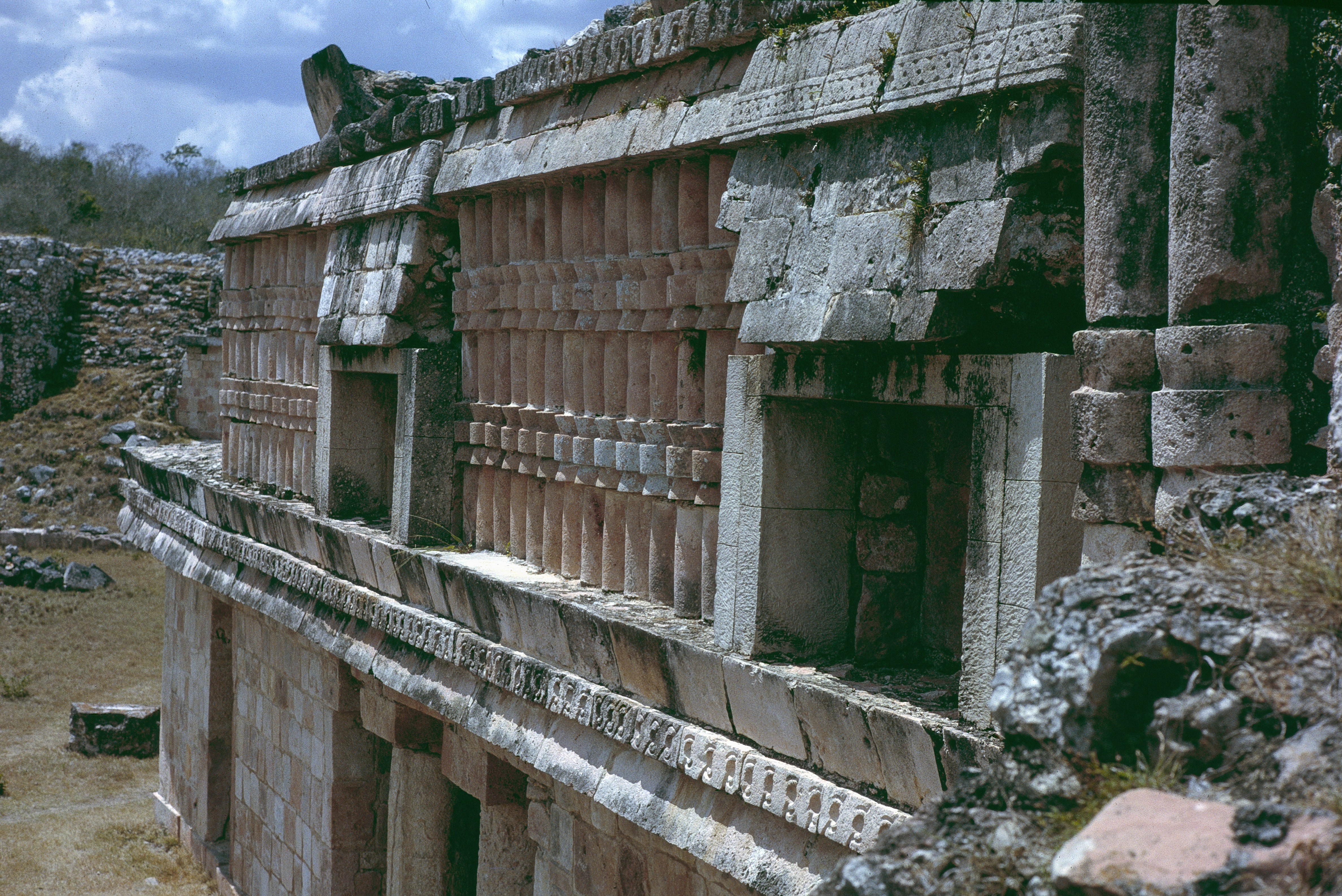 Chacmultun, Yucatan, Mexico: Main group, detail of building 1